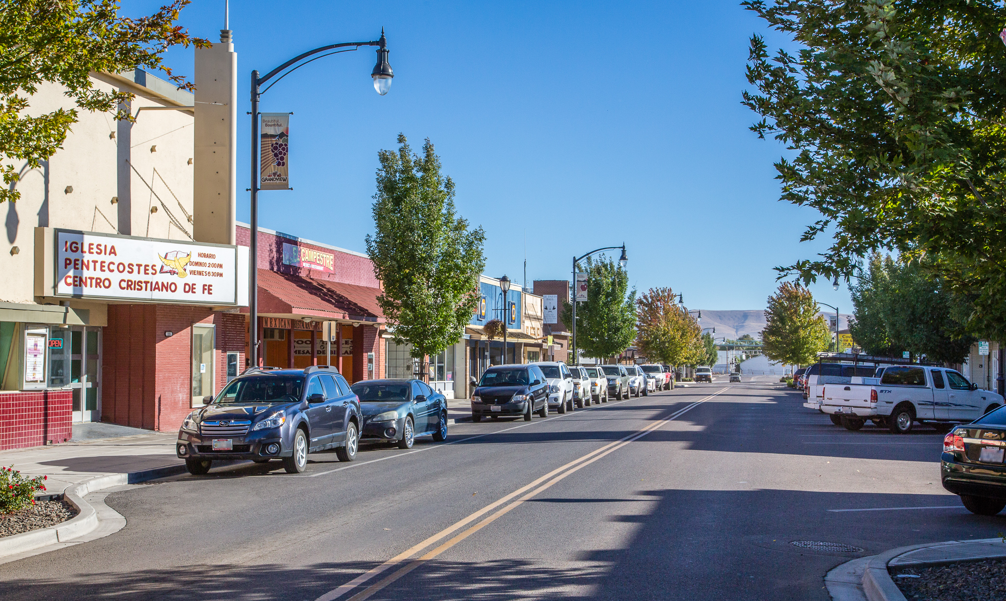 Division St., Grandview, Washington